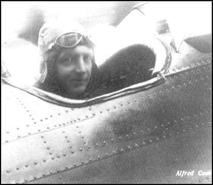 Alfed Comte piloting an Comte AC-2 (?)